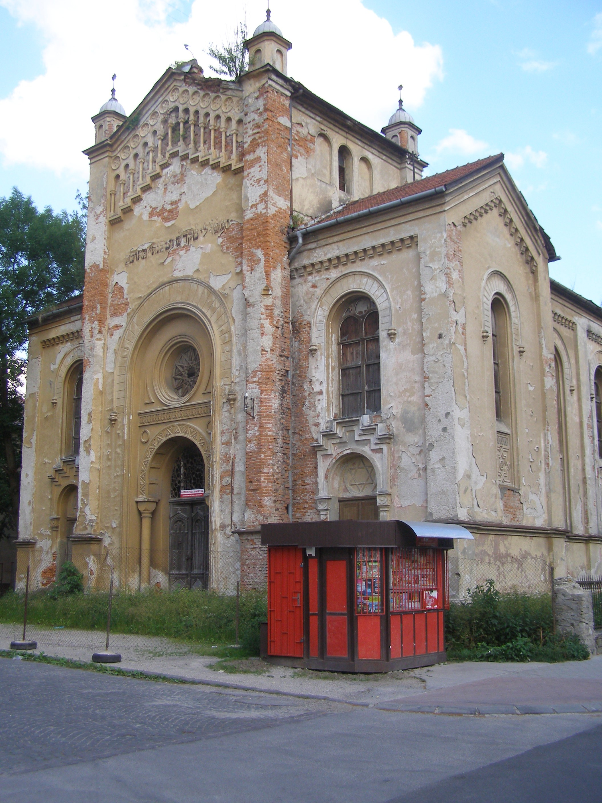 Bytča, Slovakia. Synagogue.